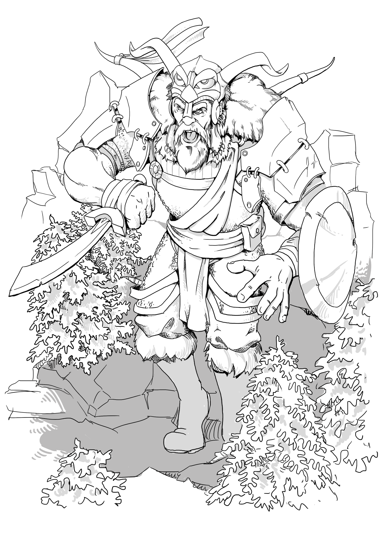 Giants were among the first monsters introduced in the earliest edition of the game, in the Dungeons & Dragons "white box" set (1974), including the hill giant, the stone giant, the frost giant, the fire giant, and the cloud giant.